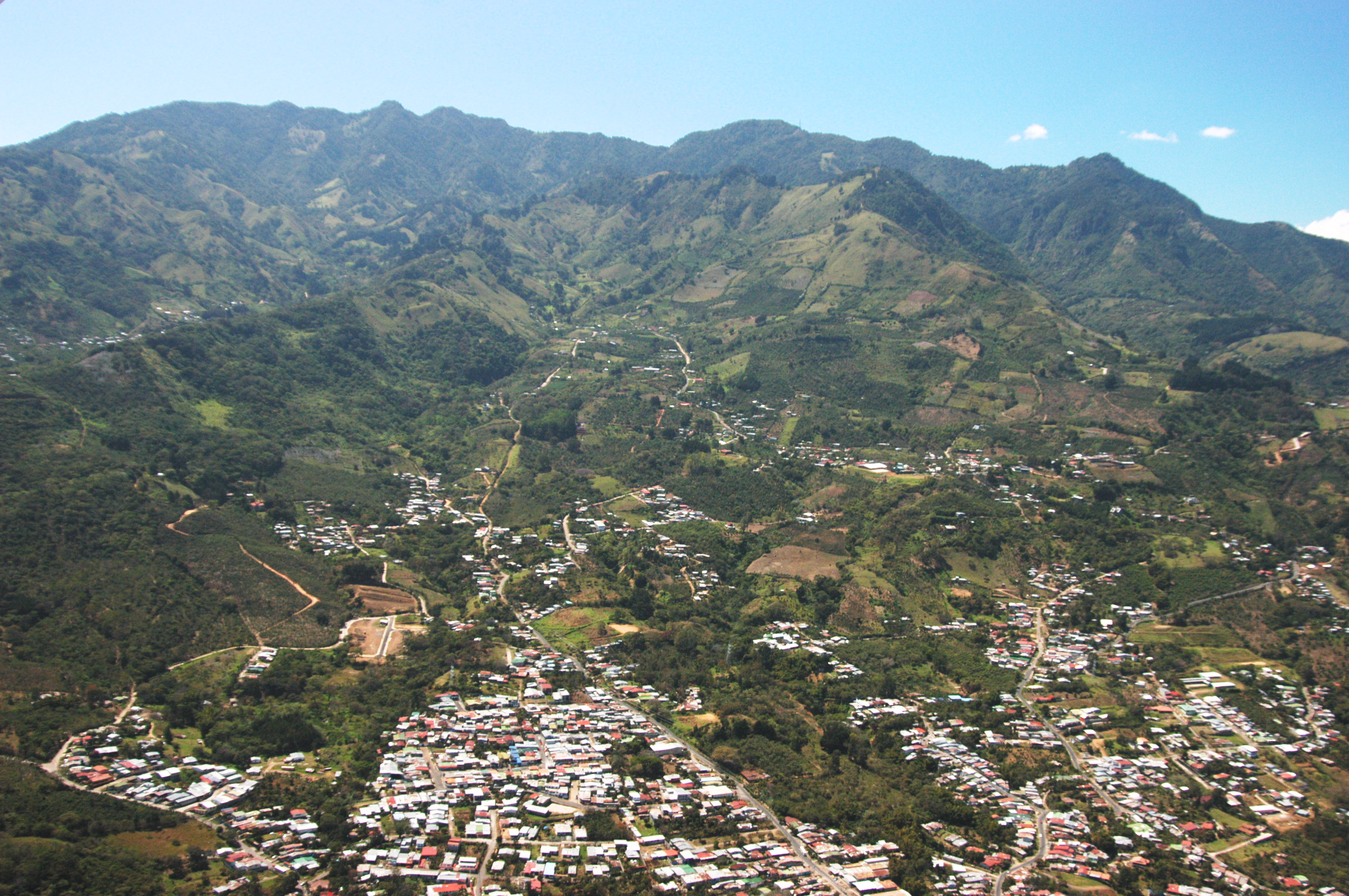 Panoramic view of part of the mountains by Aserrí, San José, Costa Rica